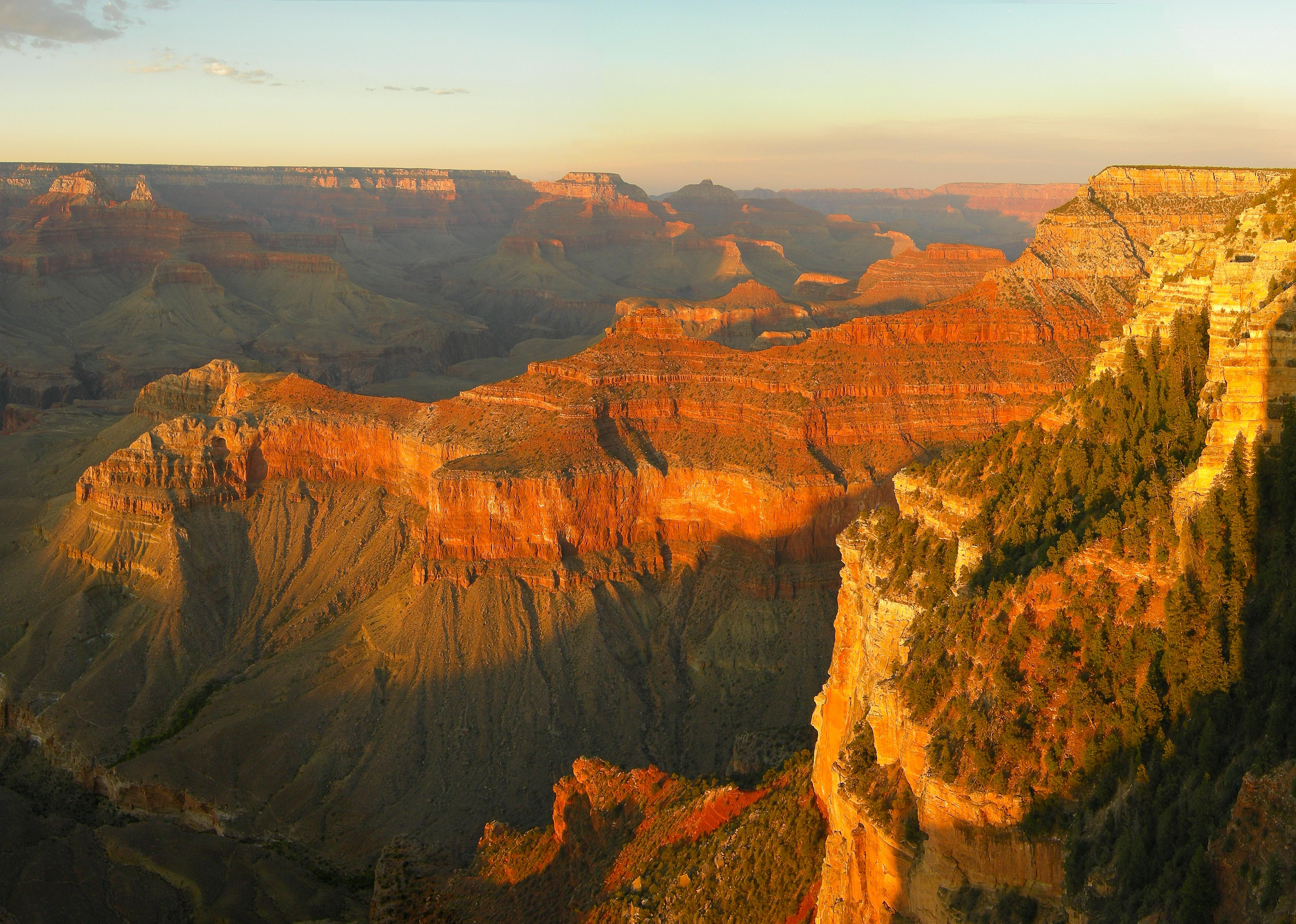 sunset at Grand Canyon (Arizona, USA) seen from Yavapai Point